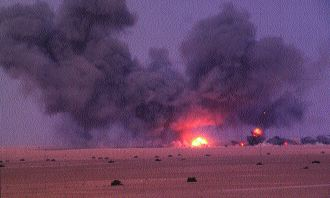 B-52 bombers conduct live bombing runs in Kuwait, during Operation Vigilant Warrior, November 1994.